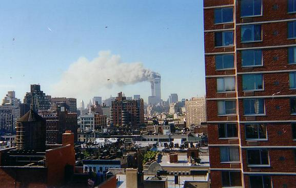 View of WTC buildings on 9/11